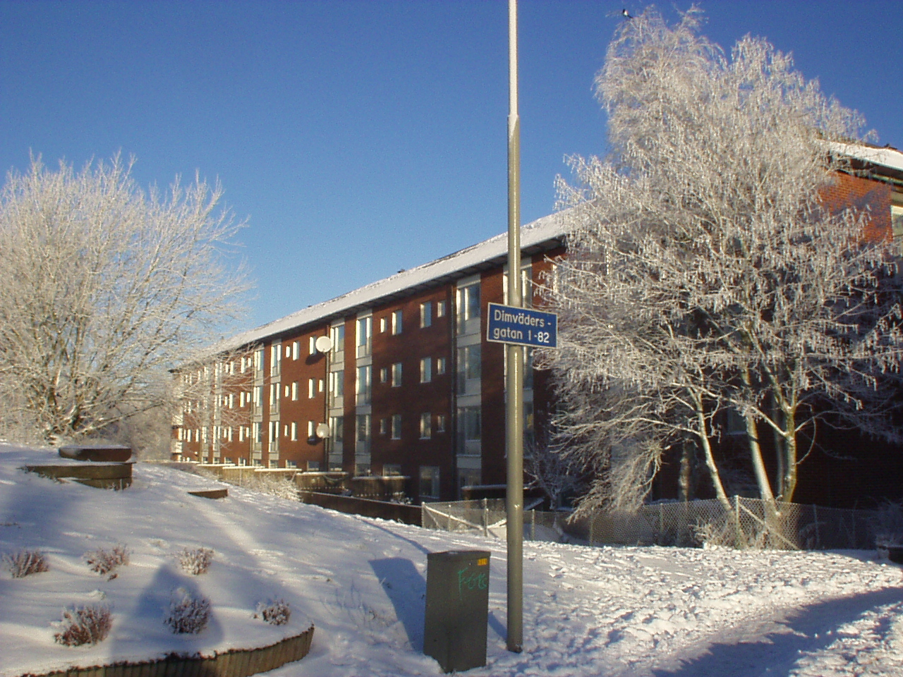 Dimvädersgatan